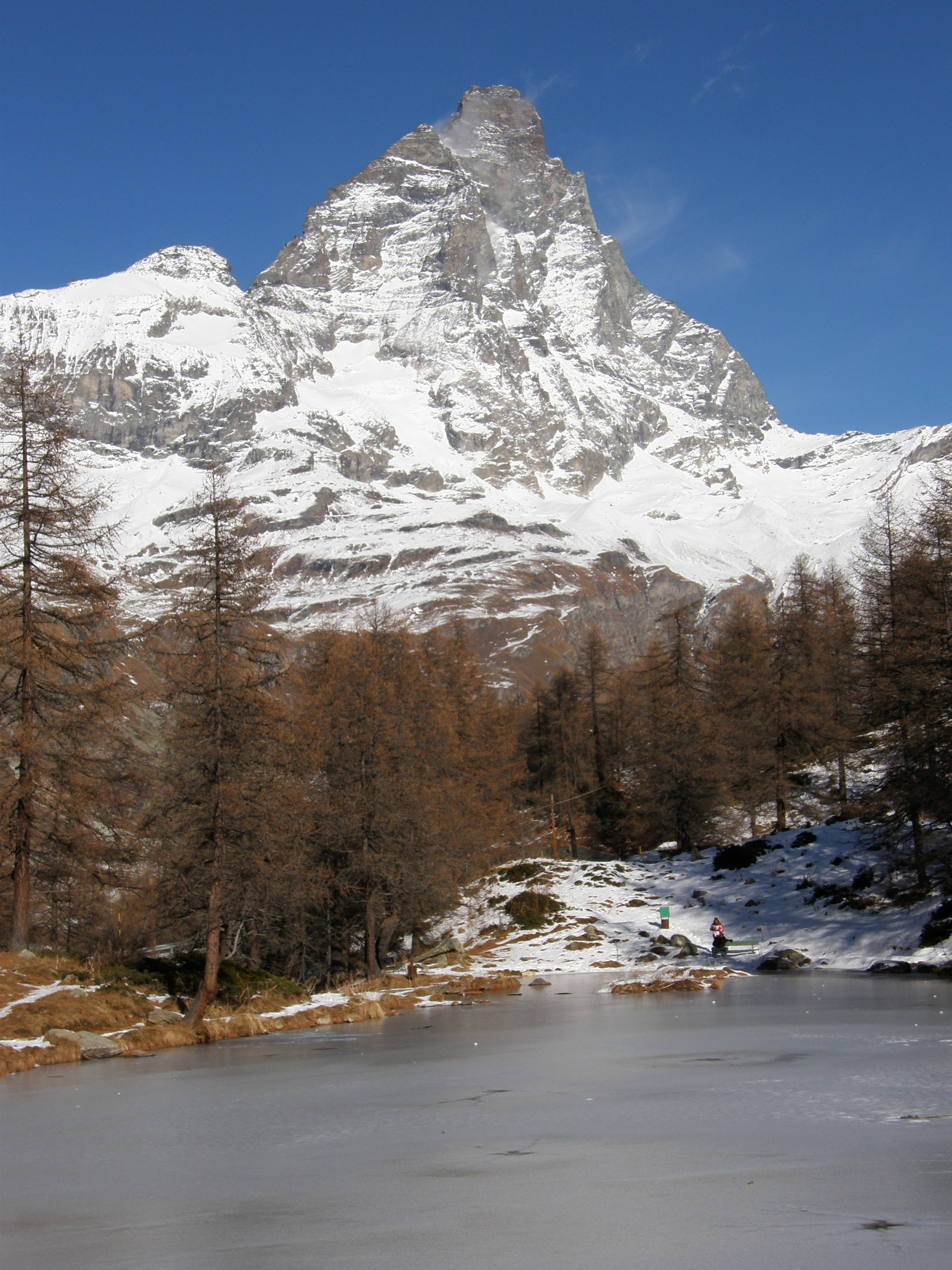 This is a photo of a monument which is part of cultural heritage of Italy.